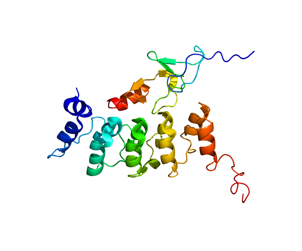 Structure of protein ILK.Based on PyMOL rendering of PDB 2KBX.